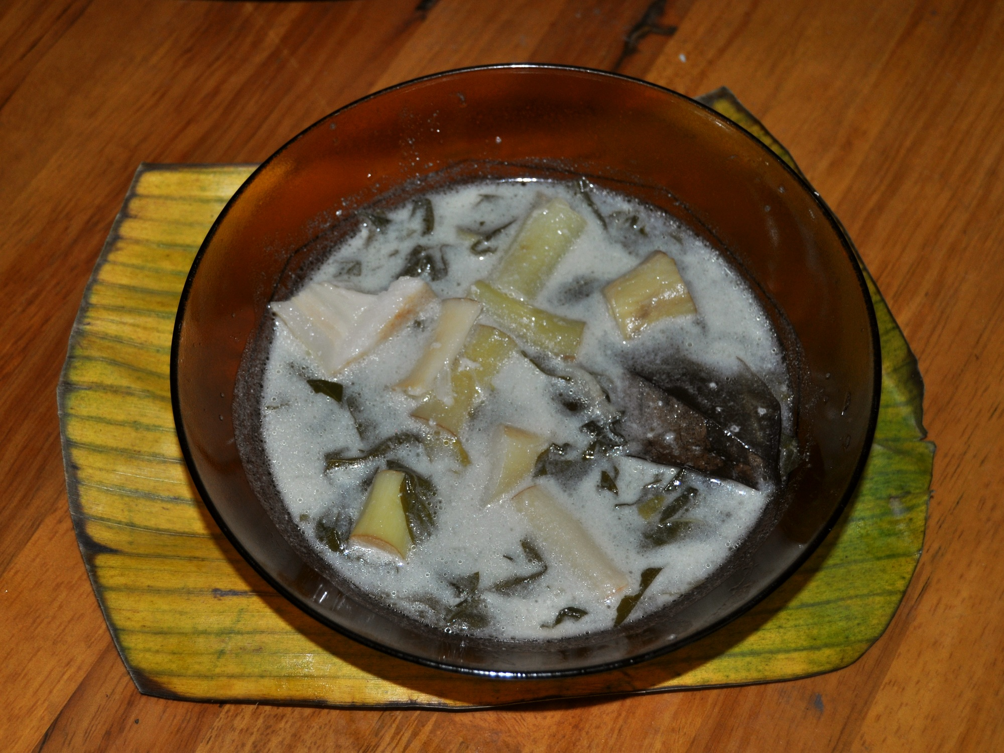 Sayur lompong, vegetables curry made from Colocasia esculenta shoots and cassava, Manihot esculenta leaves. From Bogor, West Java, Indonesia.